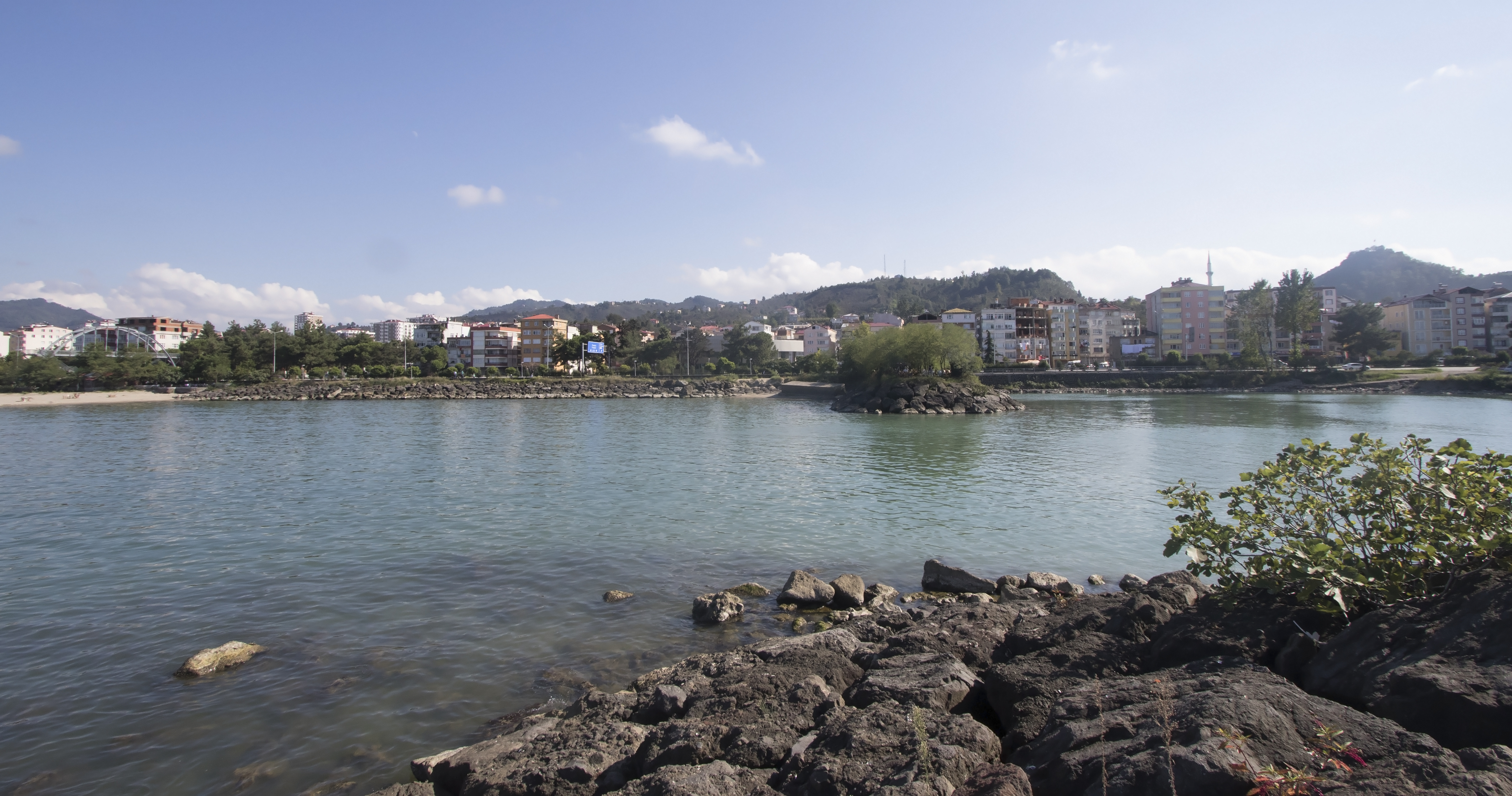 Black Sea shore view in Espiye - Giresun, Turkey.